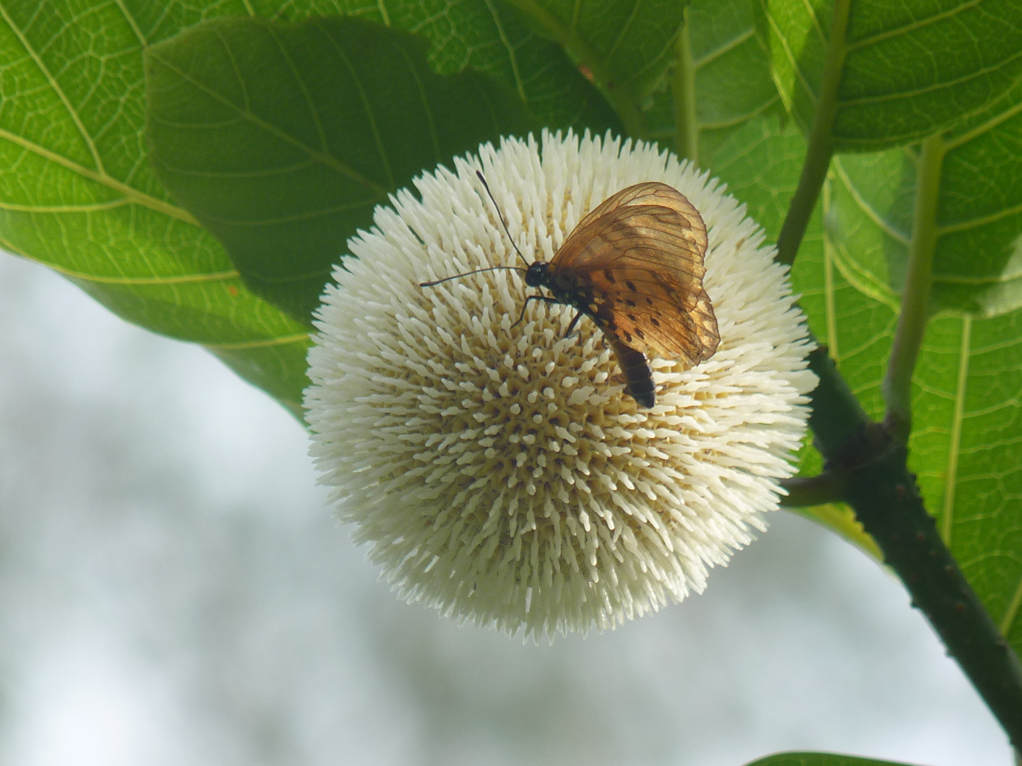 flora and fauna at the Botanical Garden of uac .